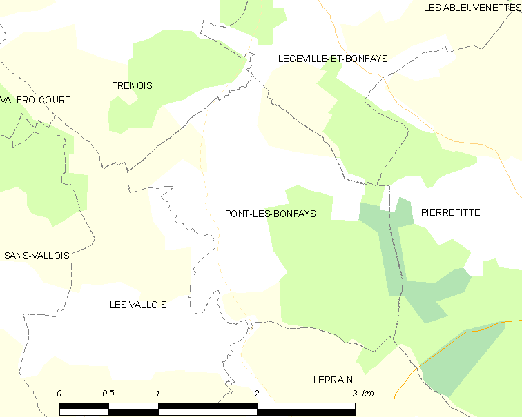 Map of French municipality Pont-lès-Bonfays